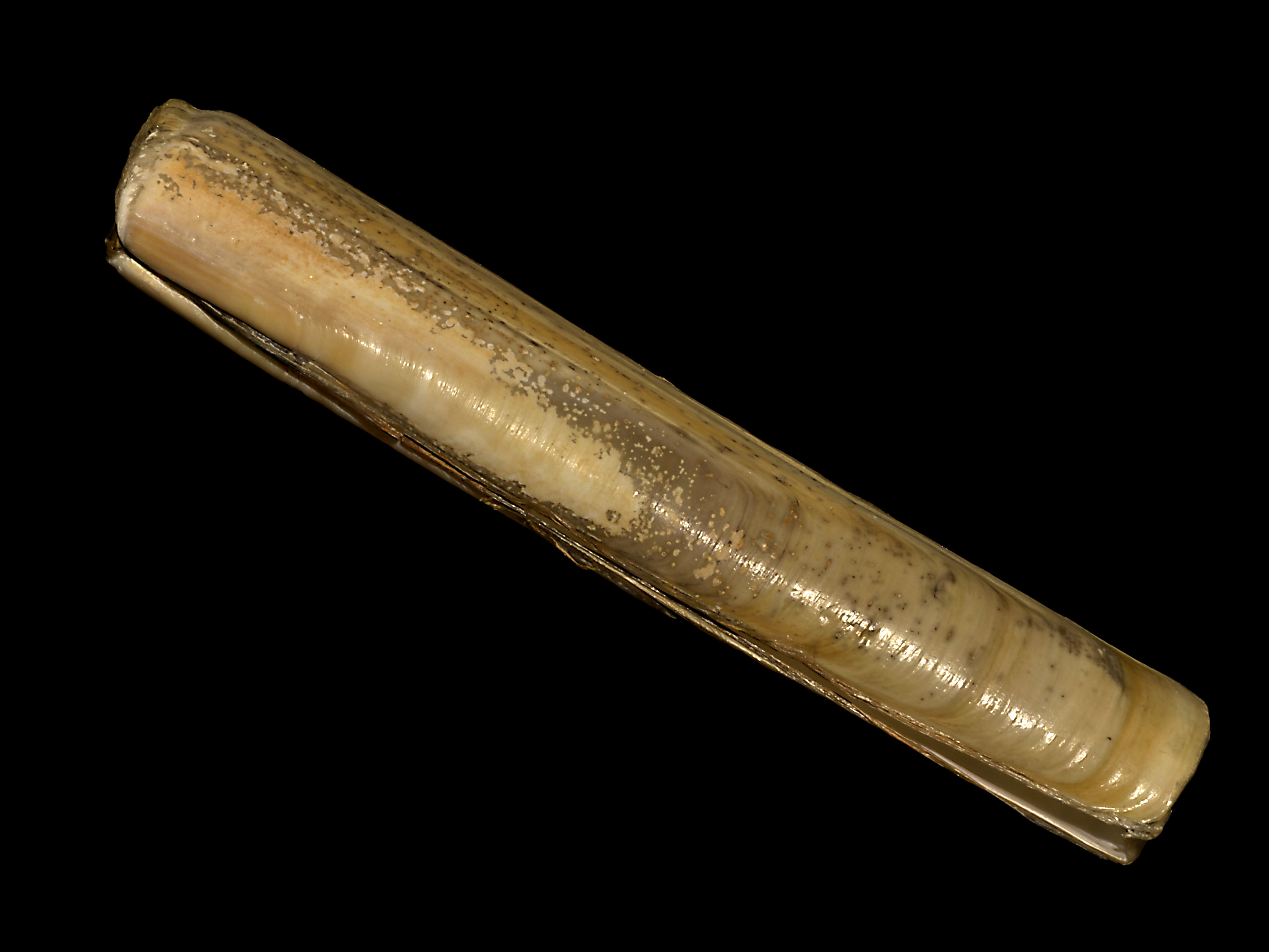 Grooved razor shell from the western Belgian coastal waters (Westdiep)